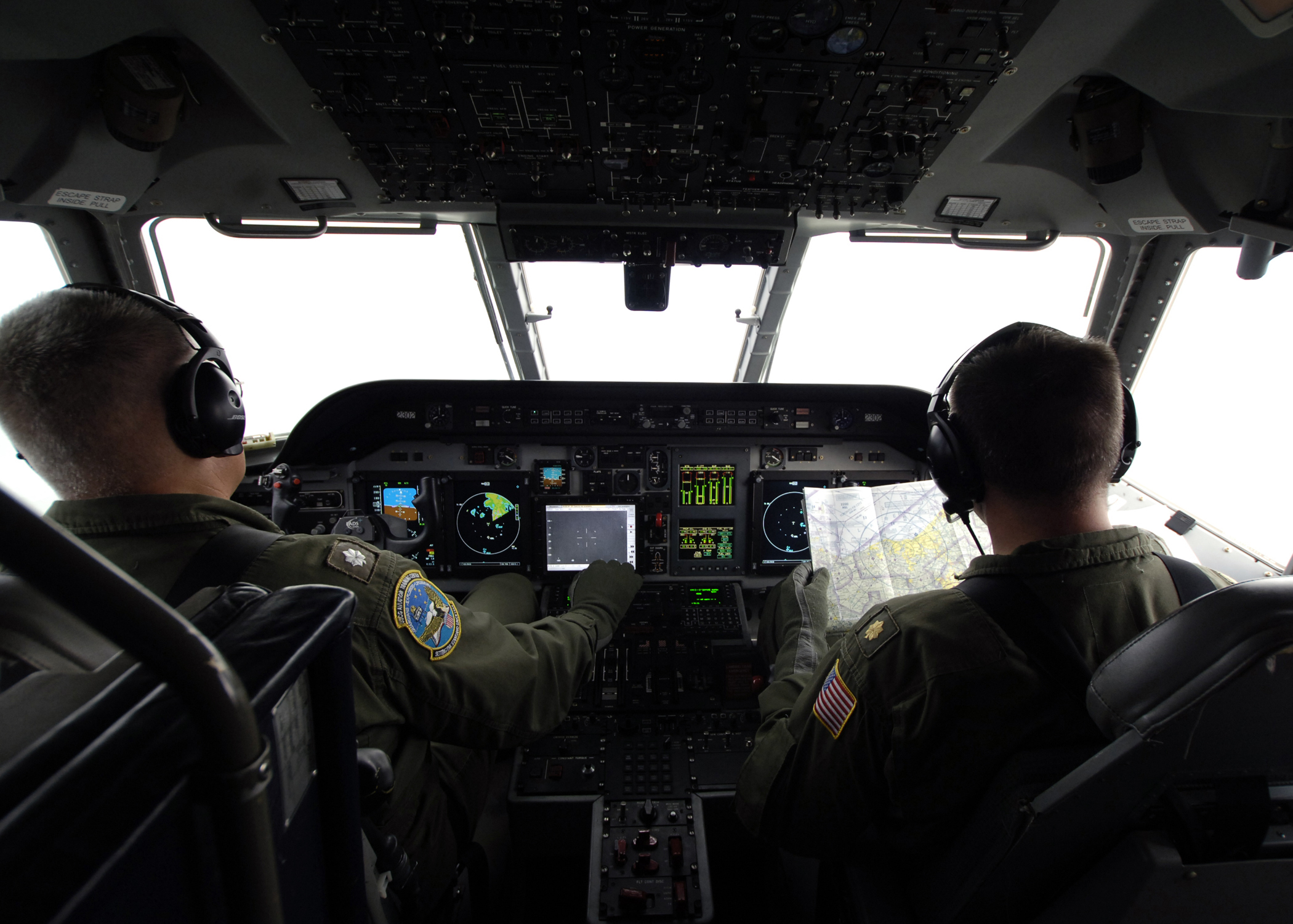 Flight Deck of a U.S. Coast Guard HC-144A Ocean Sentry (CASA CN-235-300 MP Persuader).